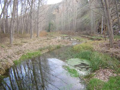 Gallo river for Chera, Guadalajara, Spain.